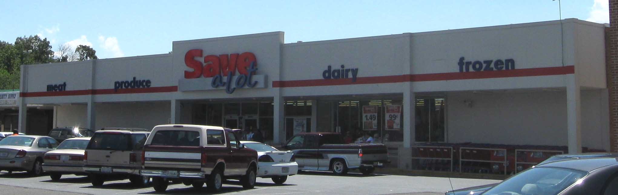 Save-A-Lot supermarket in Oxon Hill, Maryland, USA